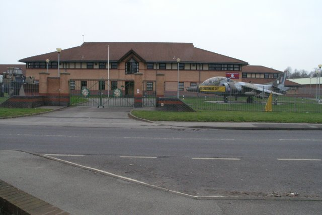 Jump Jet on Chetwynd Barracks. I hope this one does not get me arrested - hopefully not as you can see more on satellite and birds-eye view web-sites! Taken from the car park of the Tesco Superstore 51029.